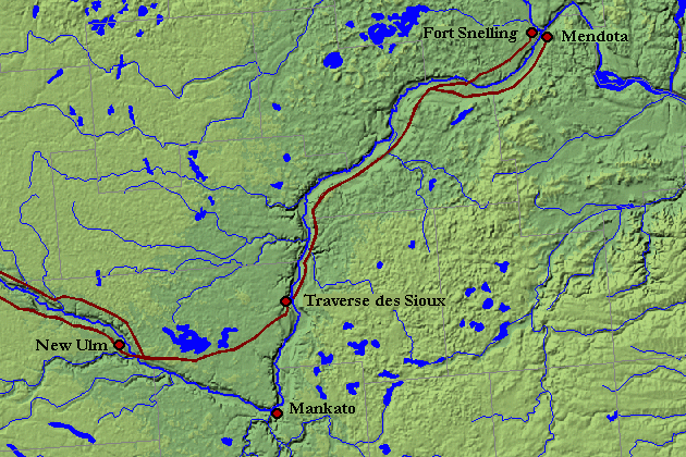 Shaded relief image of south central Minnesota in central North America, from the National Atlas Mapmaker, modified to show location of Traverse des Sioux and Red River Trail along the Minnesota River, after Gilman, Rhoda et al., (1979) The Red River Trails 1820-1870, Saint Paul: Minnesota Historical Society Press, ISBN 0-8965-8036-9. As to modifications, submitter releases all rights and specifically licenses use of this image under GNU Free Documentation License.